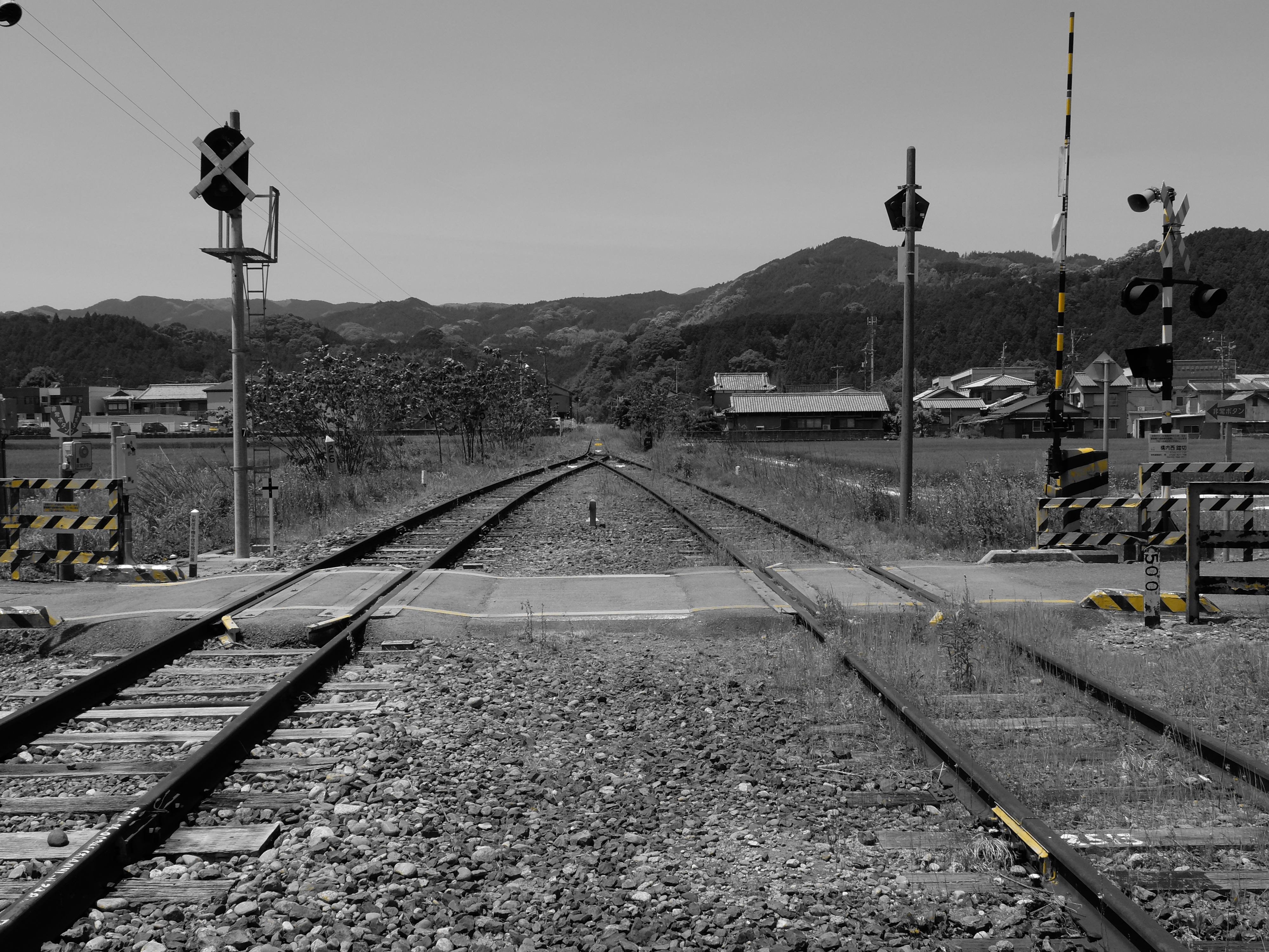 The Ieki Station railroad crossing which is suspended